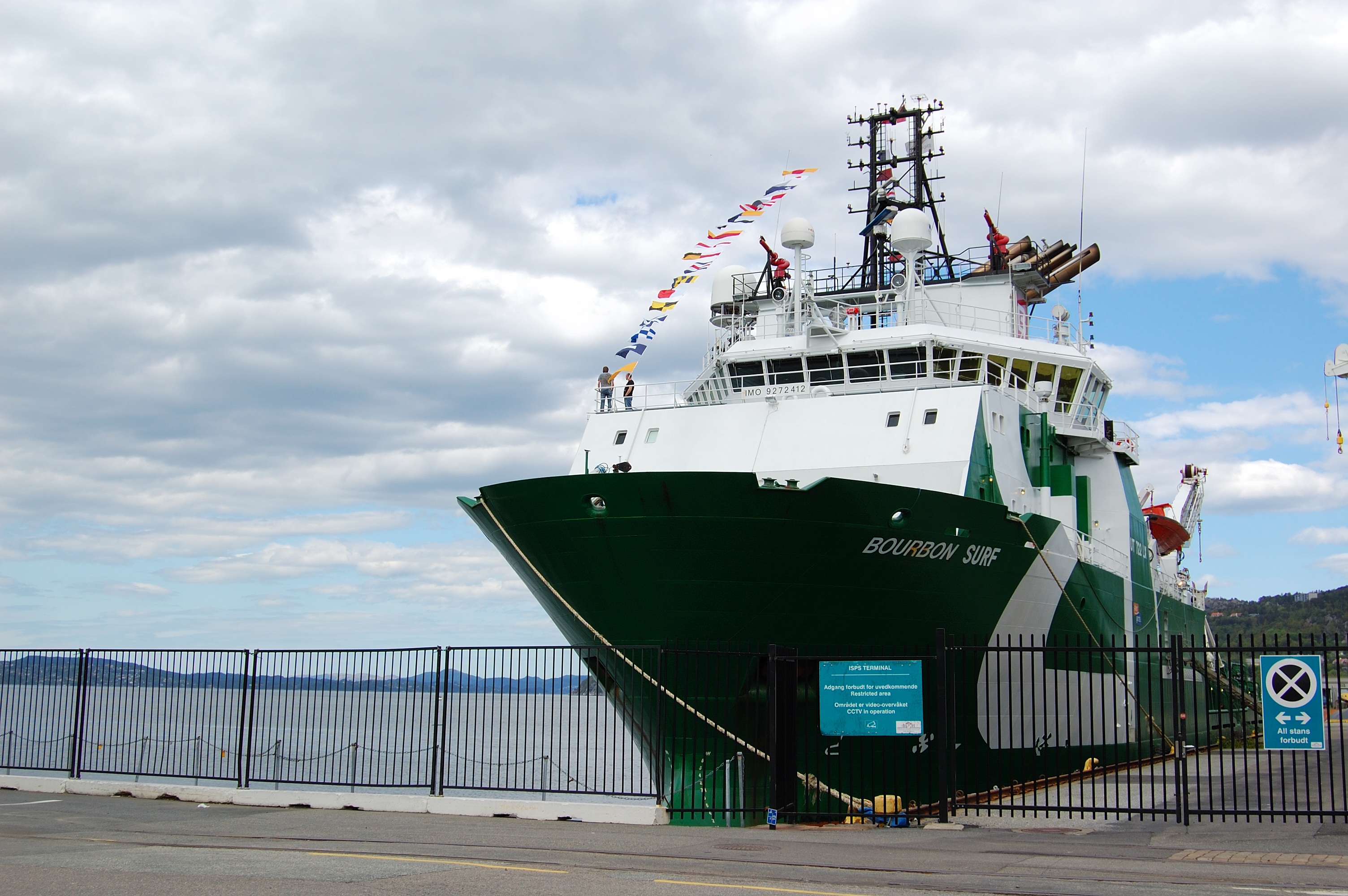 Norwegian cargo ship Bourbon Surf (IMO 9272412) in Bergen.